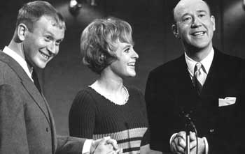 Thore Skogman, Eva Eriksson and Lennart Hyland in the TV-show Hylands Hörna 1966.